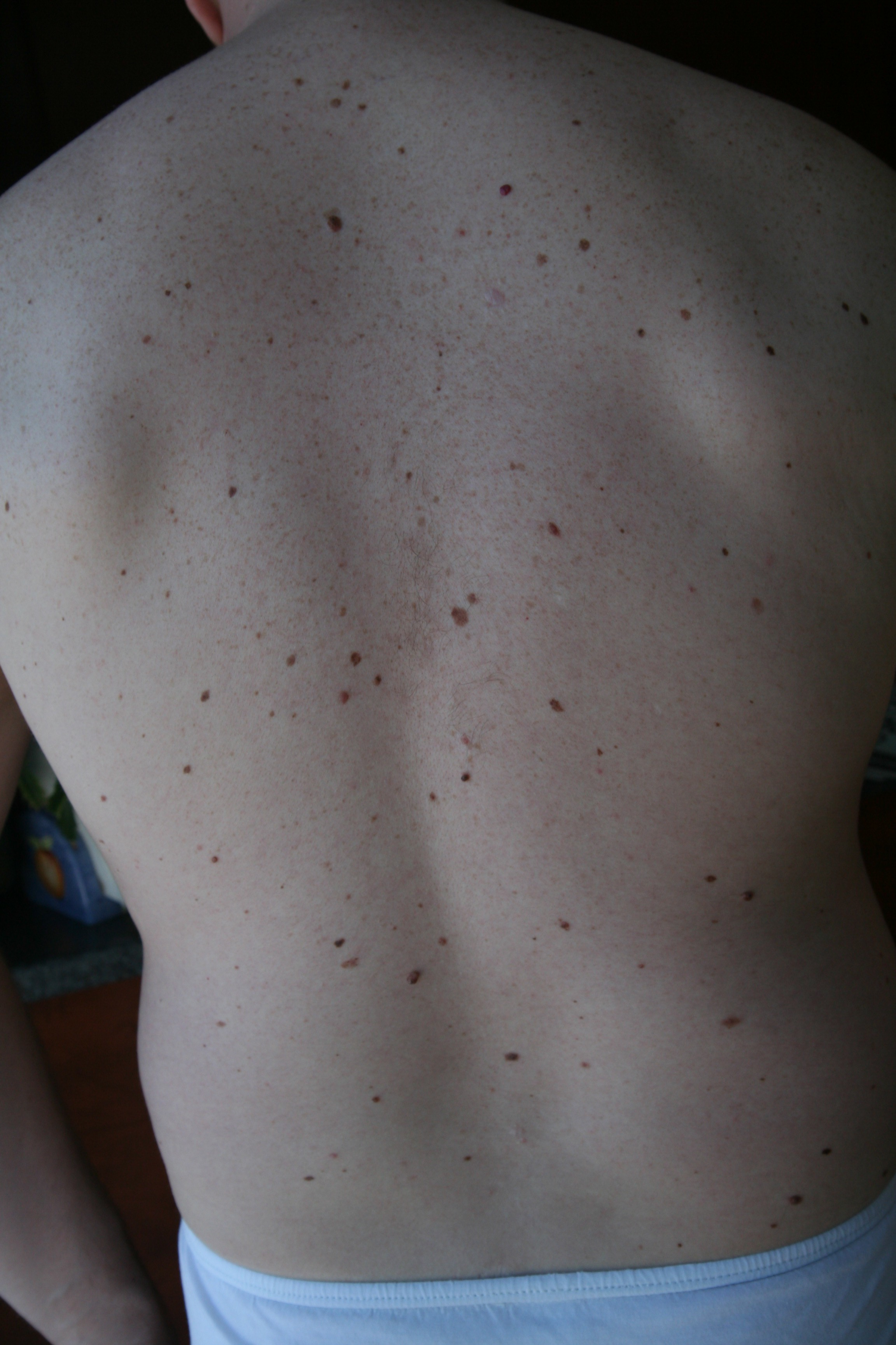 Someone with Dysplastic Nevus Syndrome